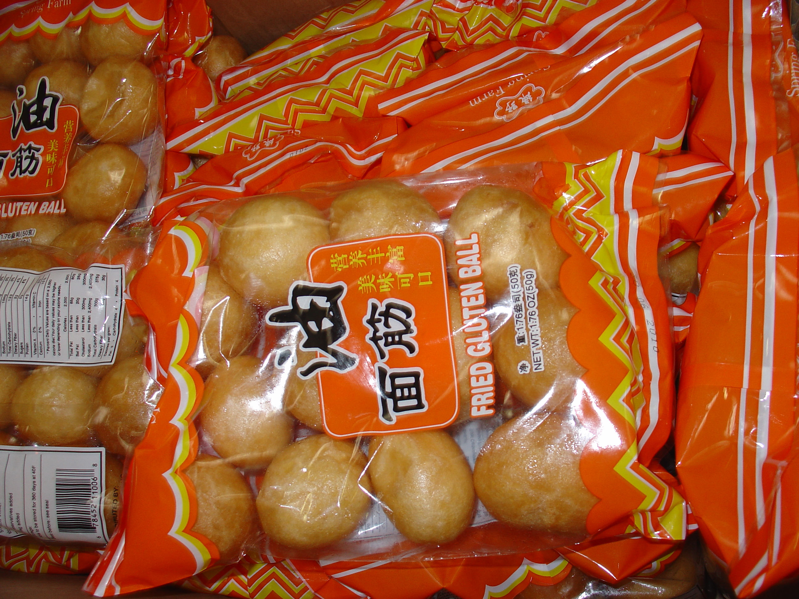 Fried gluten balls. Photo by ChildofMidnight. Attribution required.